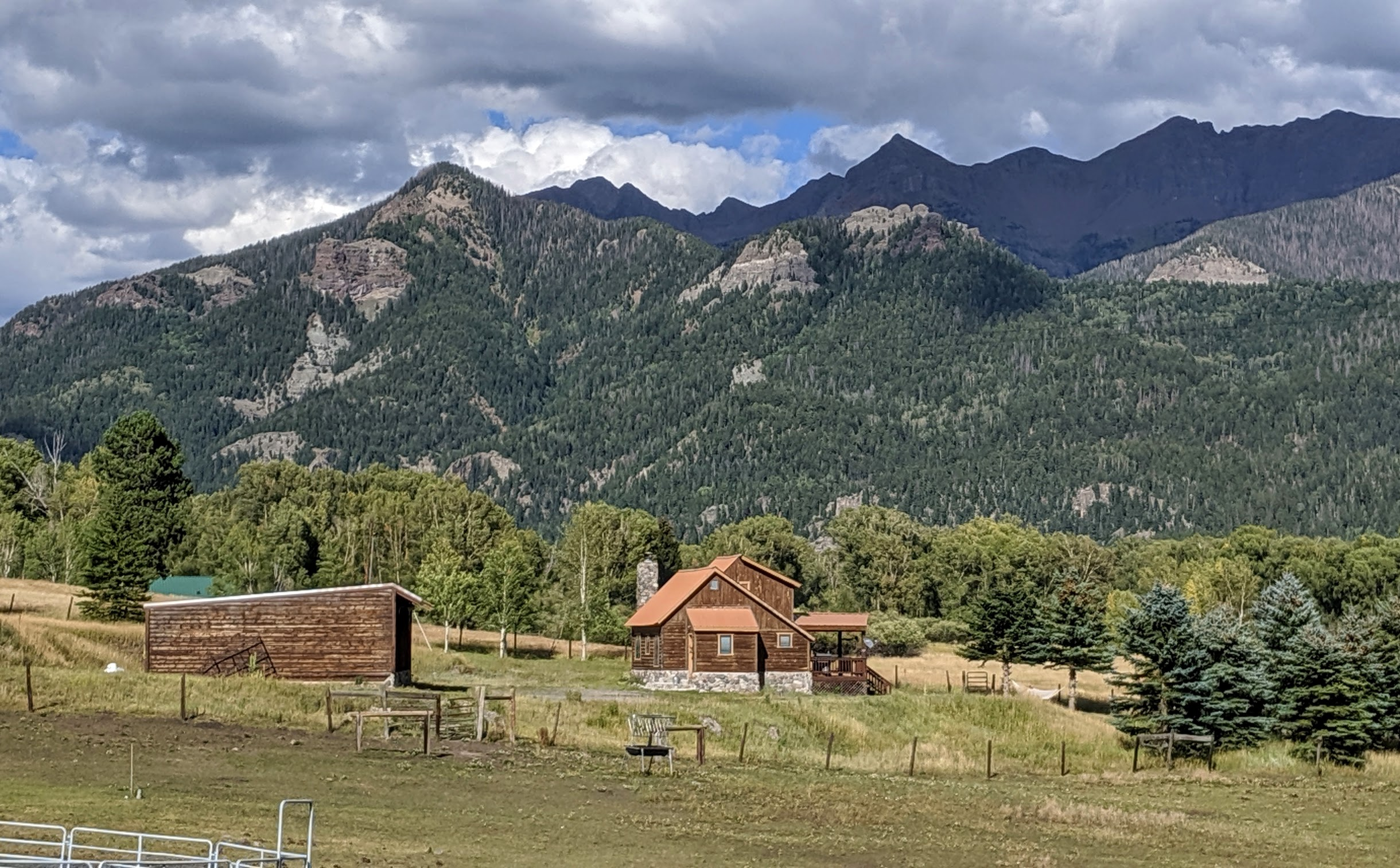 The home that once belonged to Frank Oppenheimer, on his 1500 acre cattle ranch in the valley of the Rio Blanco in the mountains near Pagosa Springs, Colorado (see listing for 11401 County Road 326 Pagosa Springs, Colorado, 81147, which shows similar pictures and describes the house as Oppenheimer's)